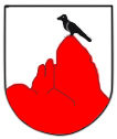 crest